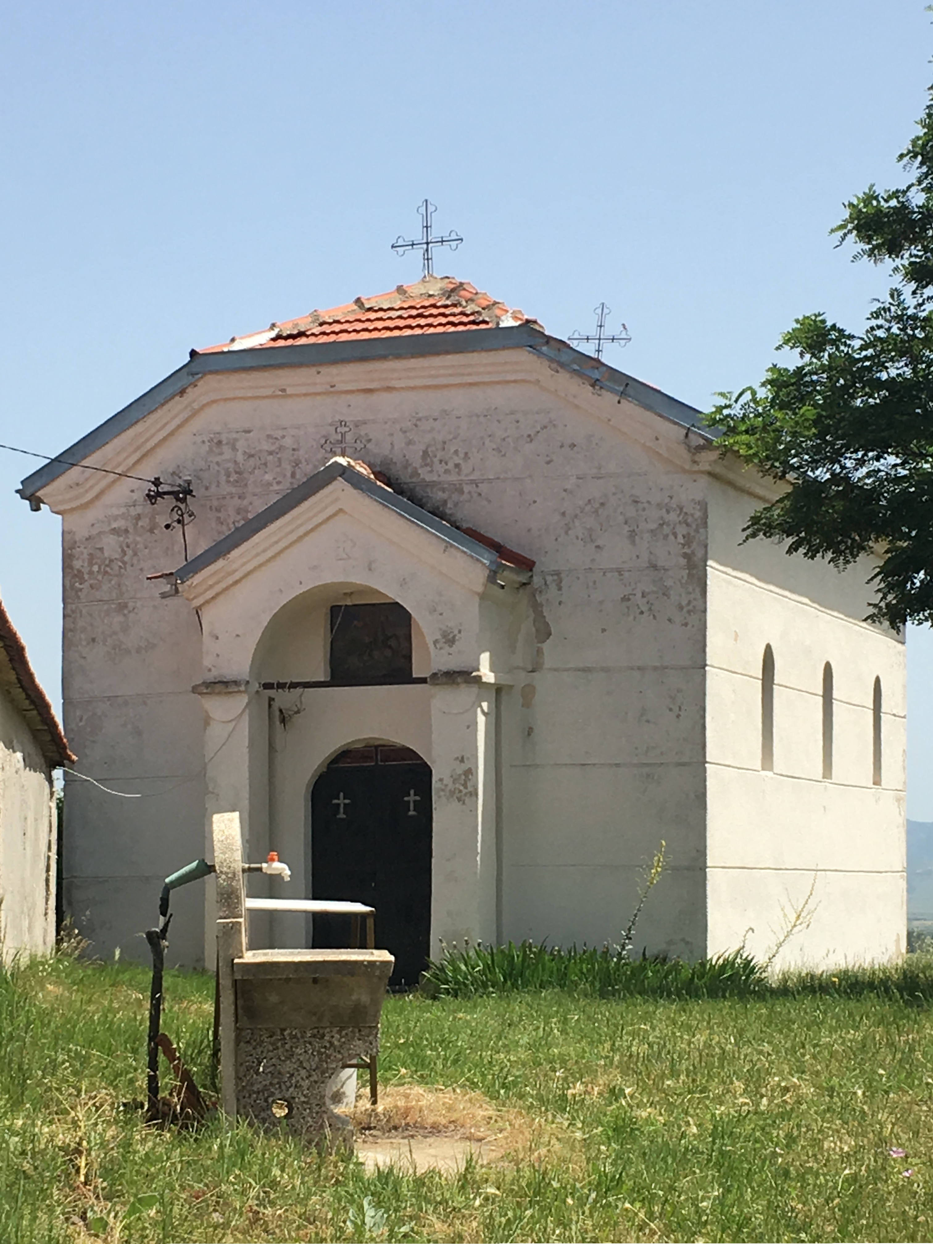 St. George Church in the village of Novoselani, Bitola